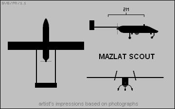 IAI Scout drawing